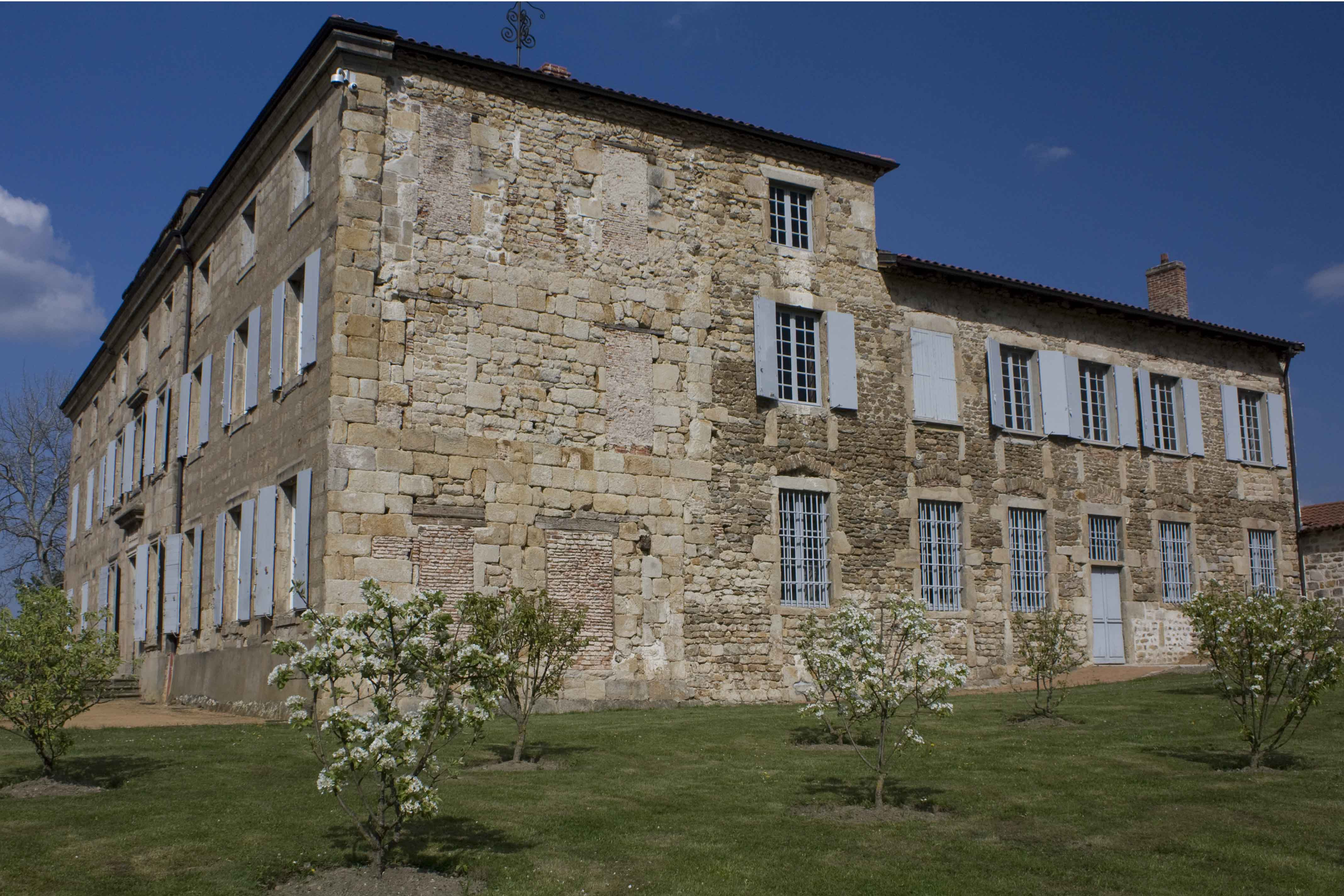 Like many manshions, the west wing of the castle of the Bruneaux bears traces of the changes undergone during the creation of the window tax.